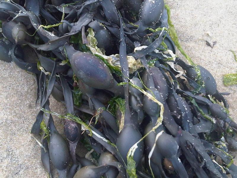 Rockweed, Norwegian kelp or knotted kelp (Ascophyllum nodosum) from Isle of Wight, South-England seashores.